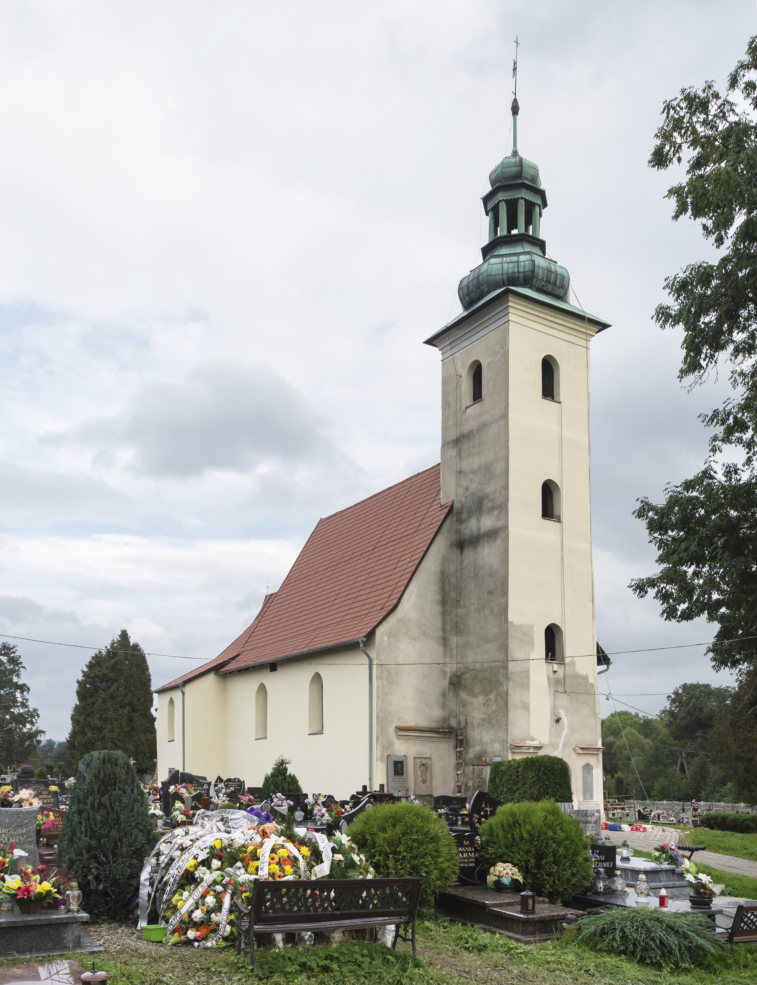 Saint Barbara church in Międzylesie